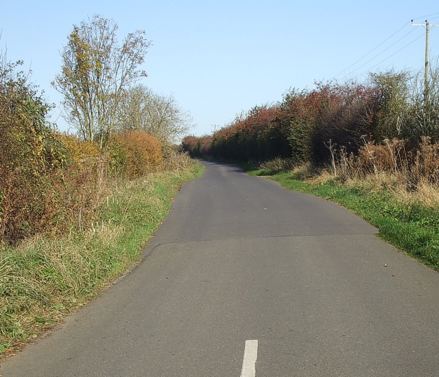 Carter's Lane, Pitchcott. This lane is a former Roman road, and forms part of the parish boundary with Quainton